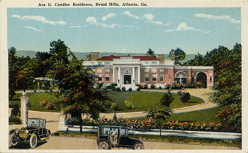 Asa G. Candler Residence, Druid Hills